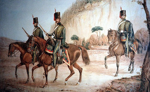 Privates Patrolling (7th Hussars)